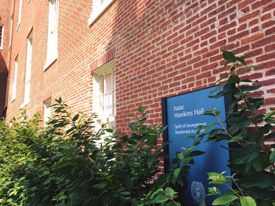 Isaac Hawkins Hall, formerly Mulledy Hall and Freedom Hall, at Georgetown University